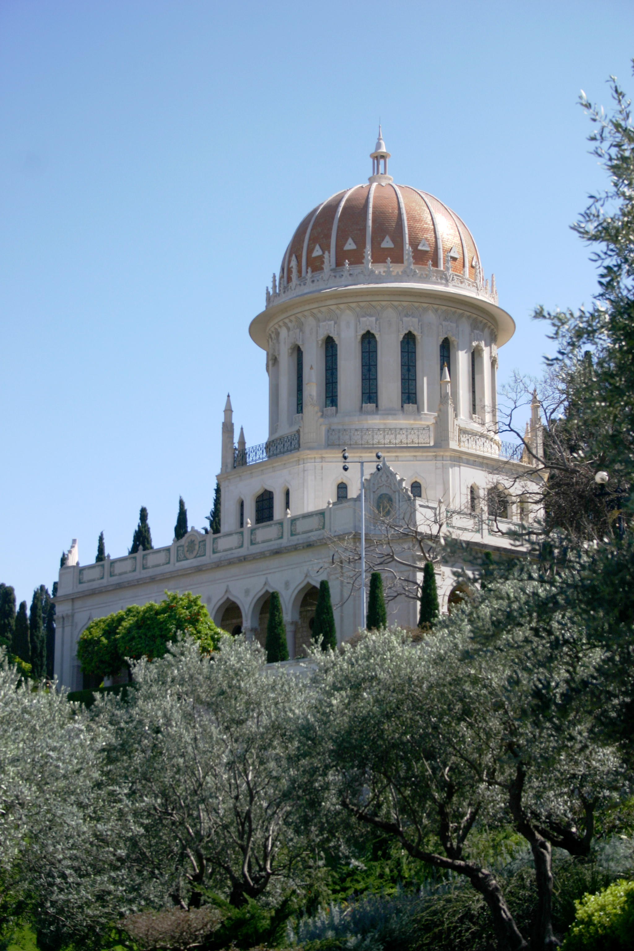 Shrine of the Báb from North West